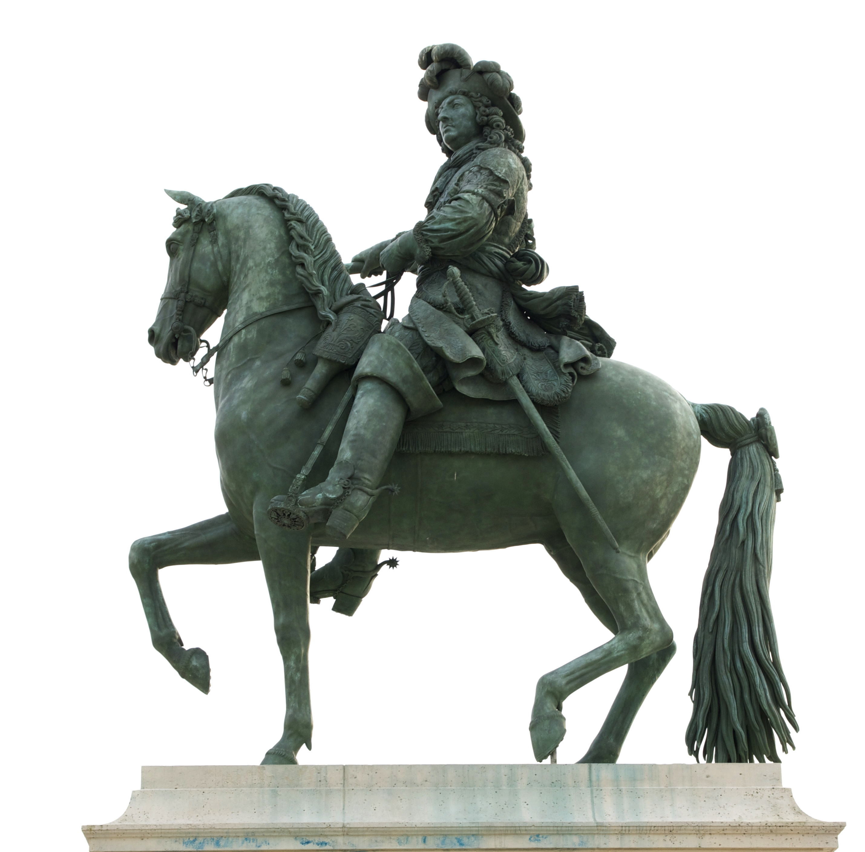 equestrian statue of Louis XIV in the "Place d'Armes" of Versailles.